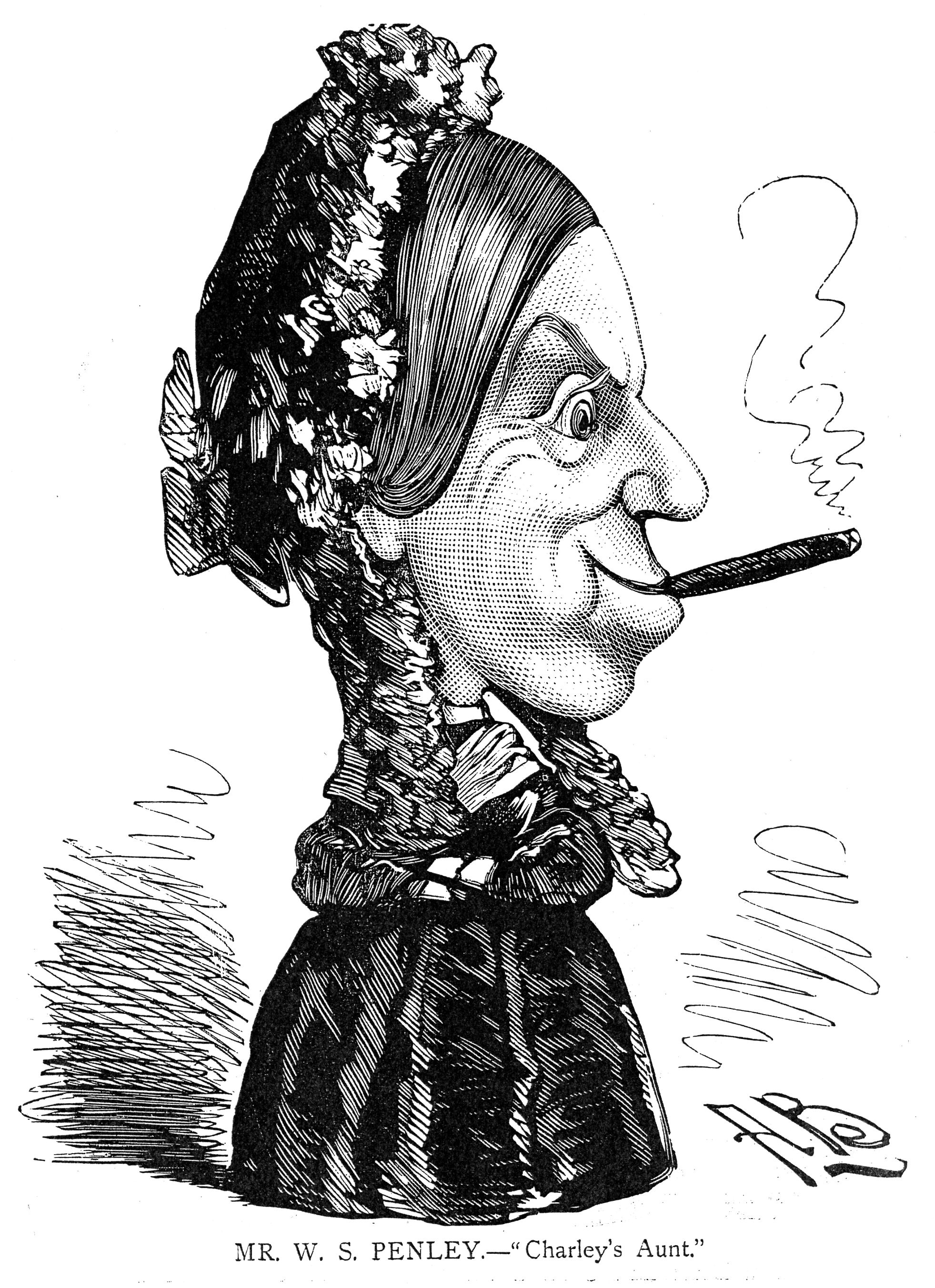 W. S. Penley as the original Charley's Aunt, a play that broke all previous theatrical records.